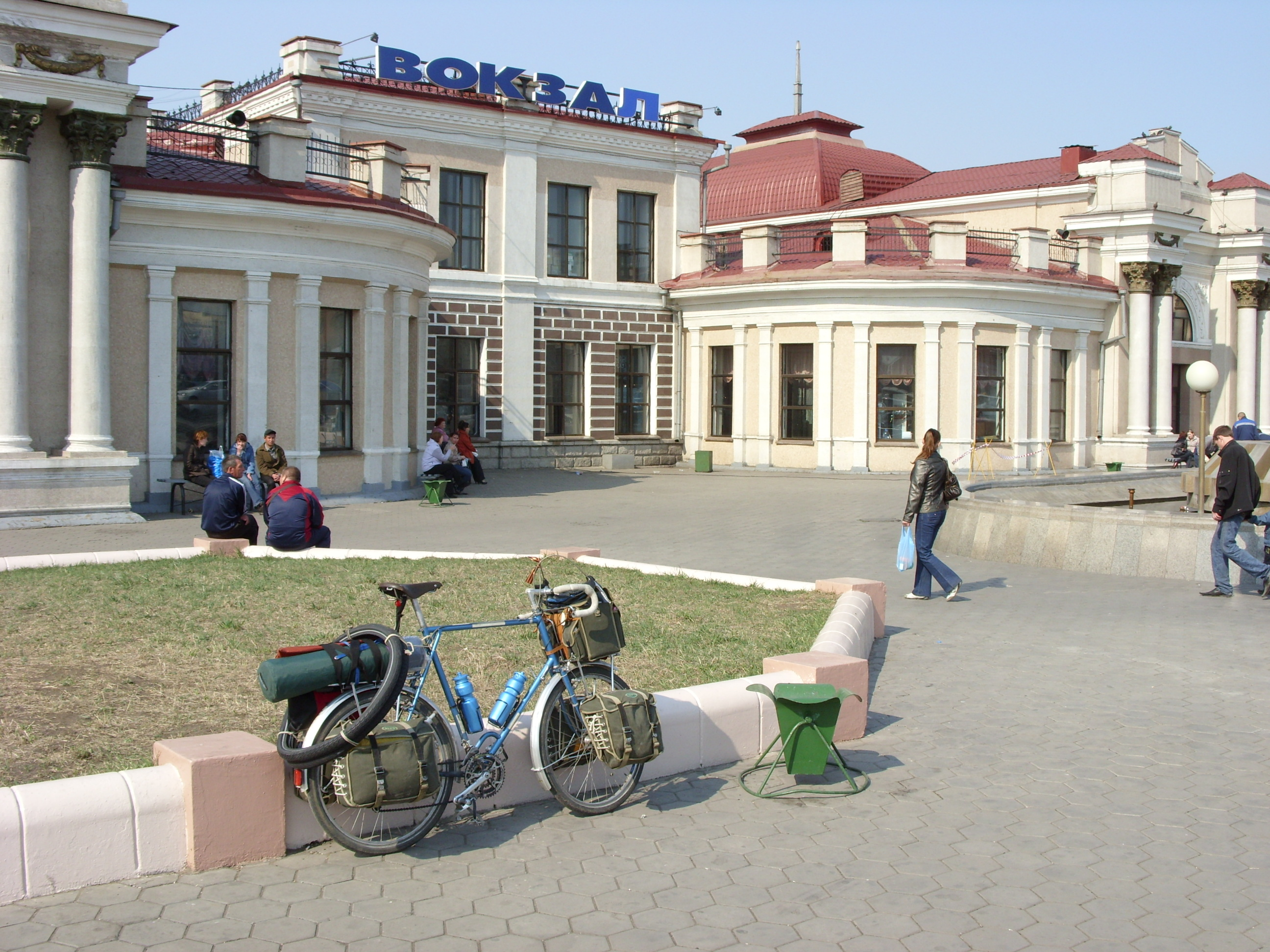 front of Chita railroad station